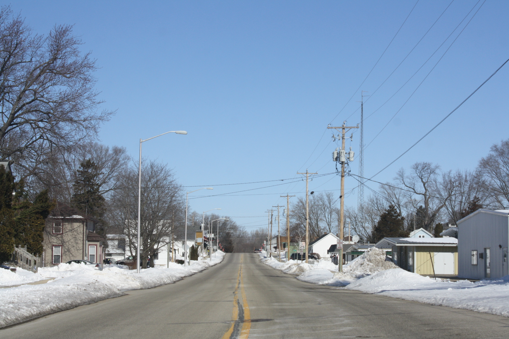 Looking north in downtown Kingston, Wisconsin on Wisconsin Highway 44.